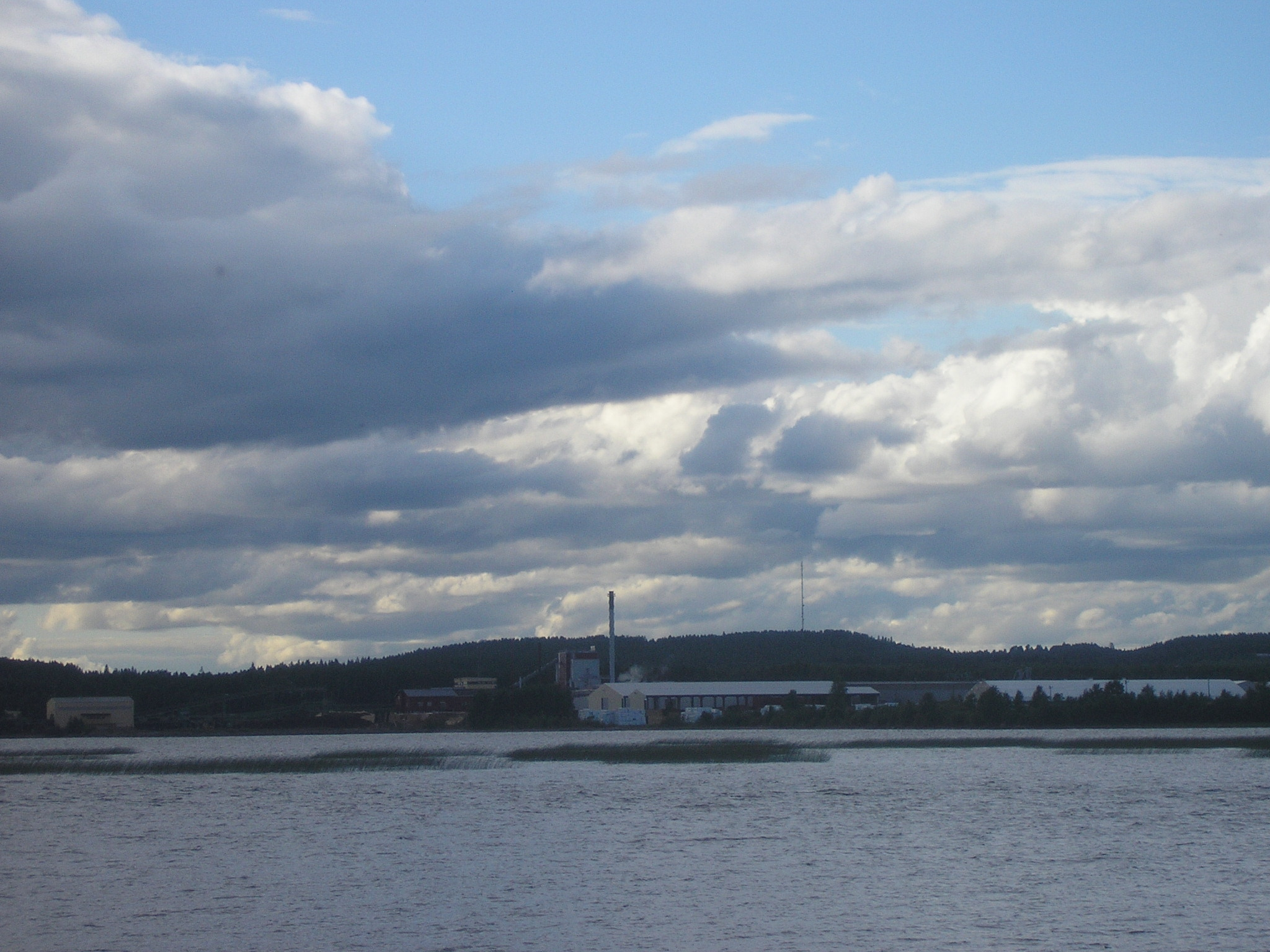 Kevätniemi sawmill in Lieksa, Finland